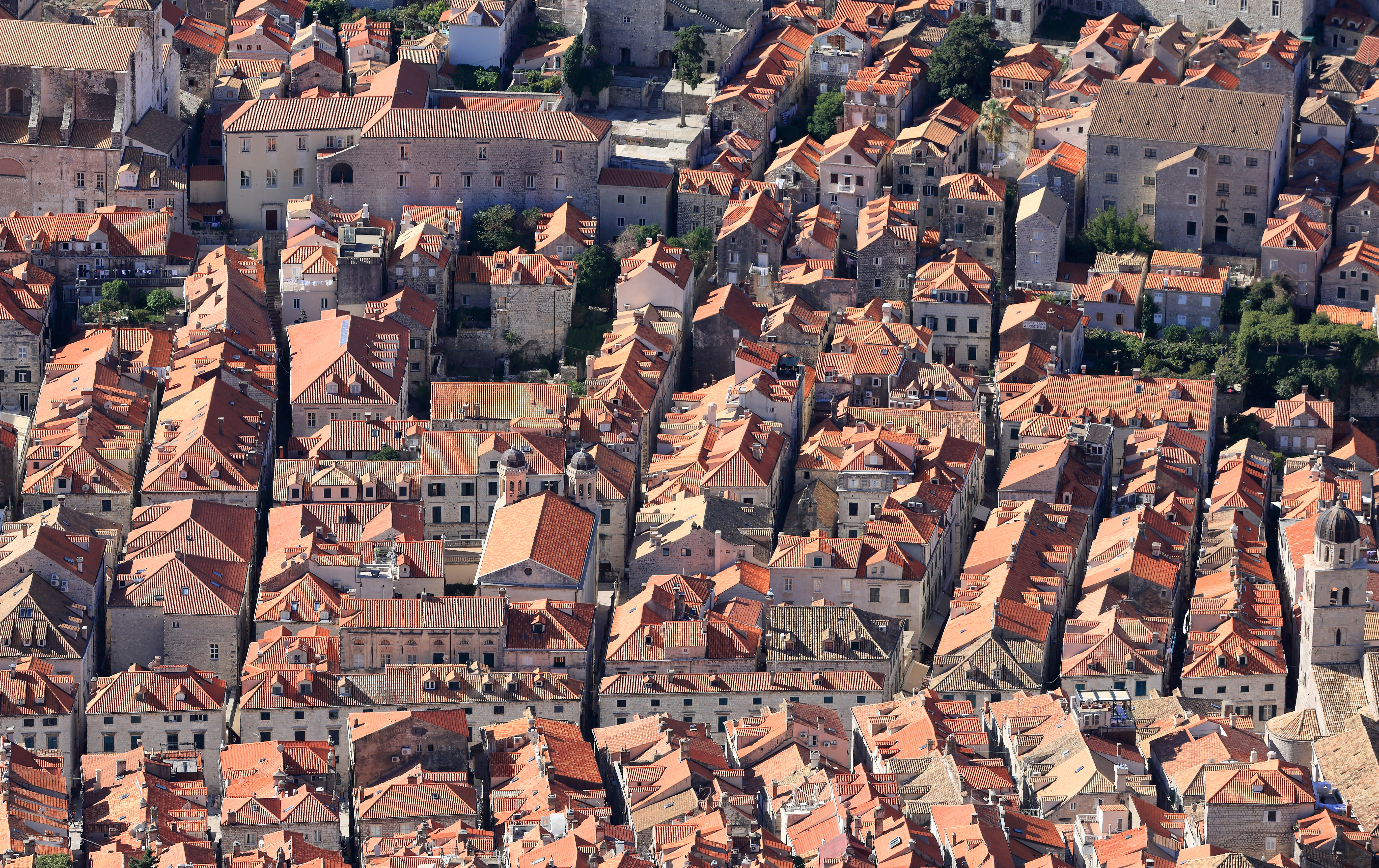 Dubrovnik, UNESCO World Heritage Site Ref. Number 95, as seen from Srđ.